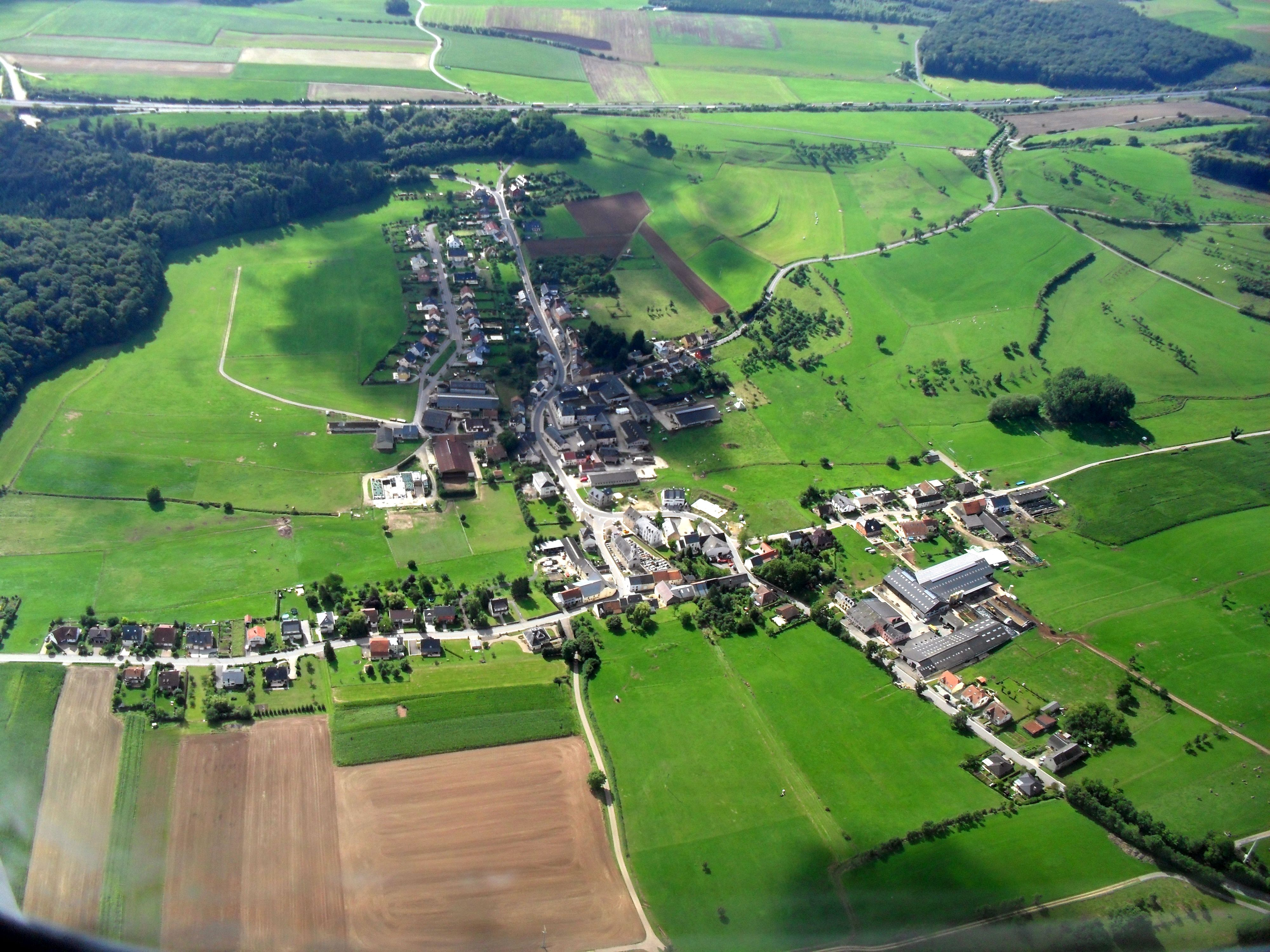 Aerial photograph of the village of Flaxweiler, Luxembourg.